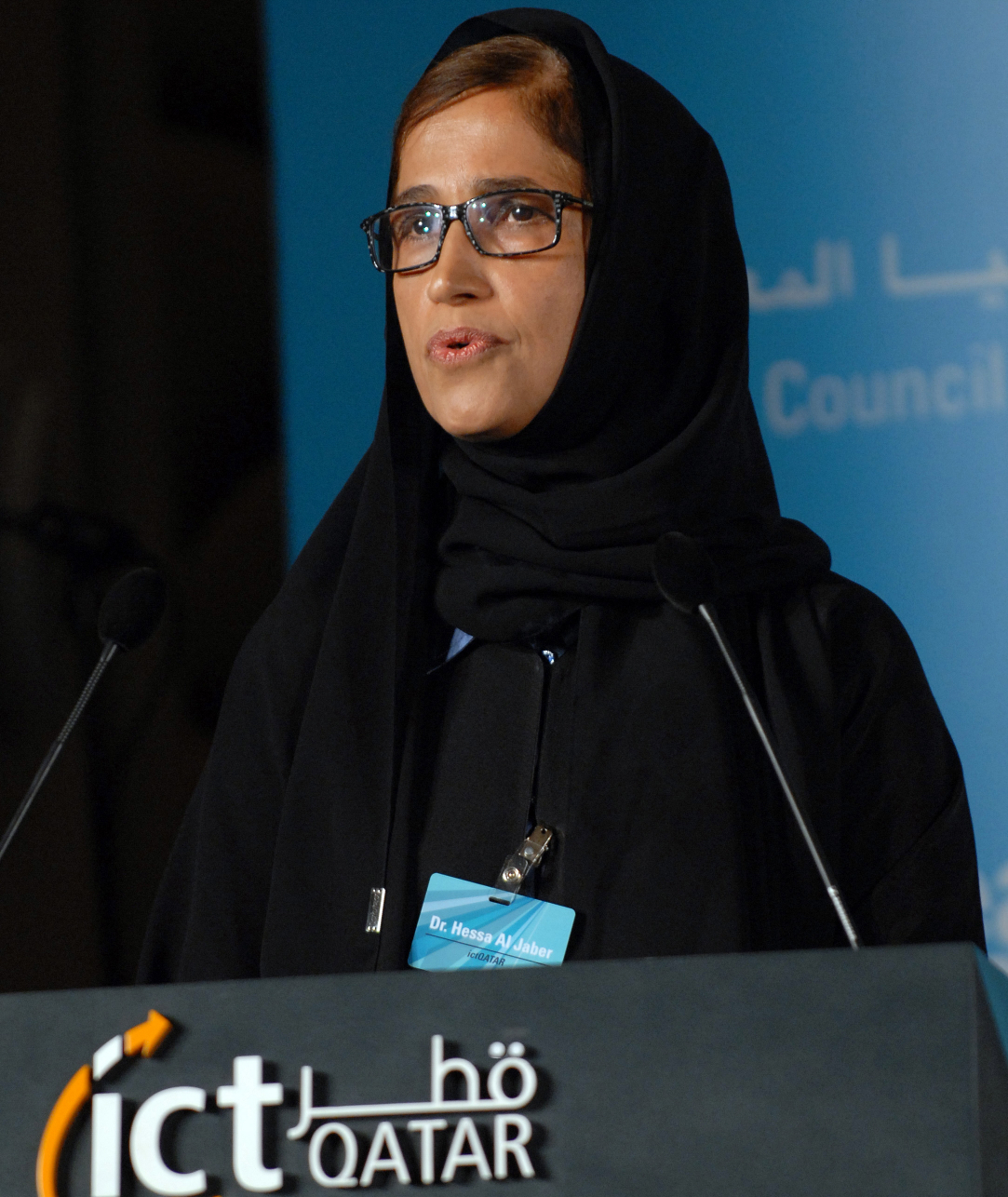 Dr. Hessa Al Jaber, Secretary General of ictQATAR. Dr. Hessa Al Jaber is the Secretary General of the Supreme Council of Information and Communication Technology, ictQATAR. In her nearly six years of leadership at ictQATAR, Dr. Hessa has led Qatar's ICT strategy across sectors, spearheading major initiatives in government, education and business. She has overseen the liberalization of Qatar's telecommunications market, ushering in an era of choice and competition, and directed the modernization of Qatar's ICT infrastructure. Passionate about ensuring that the benefits of technology reach all sectors, Dr. Hessa has led numerous initiatives to make Qatar a more inclusive society through ICT. She has spearheaded the modernization of Qatar's government through ICT, streamlining processes, making government more transparent and accessible to its people, and also launching an online portal to the government, Hukoomi. She is also leading Qatar's initiative to build the first high-capacity satellite "E'Shail" to be launched in 2012. Dr. Hessa has been instrumental in the creation of Mada, an assistive technology center that serves persons with disabilities in Qatar, as well as initiating a host of national programs that empower women and youth, and protect children online.